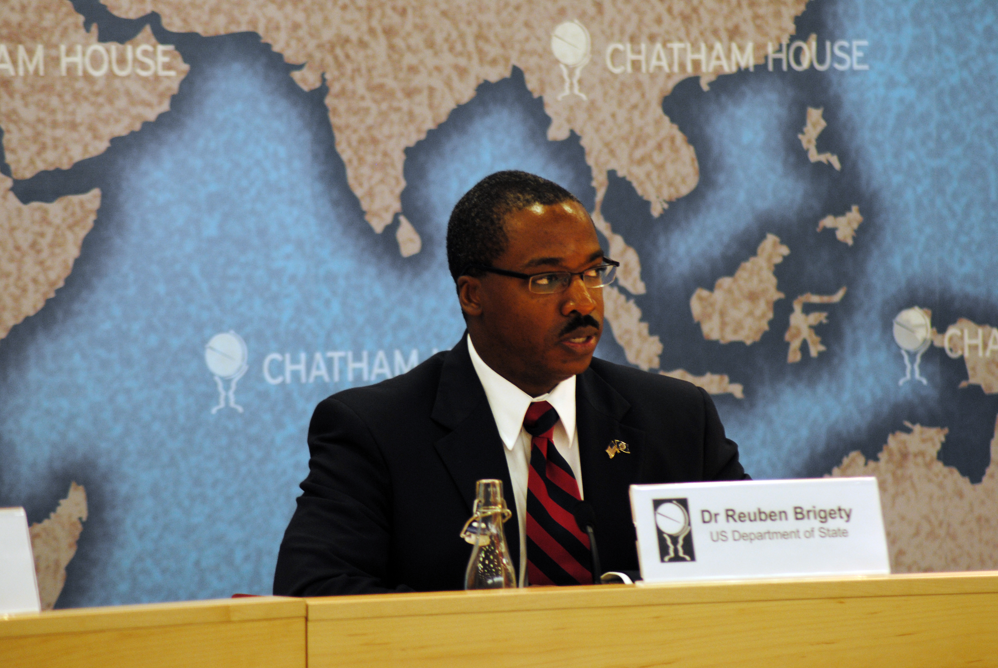 US Perspectives on Instability in the Sahel, Friday 26 October 2012